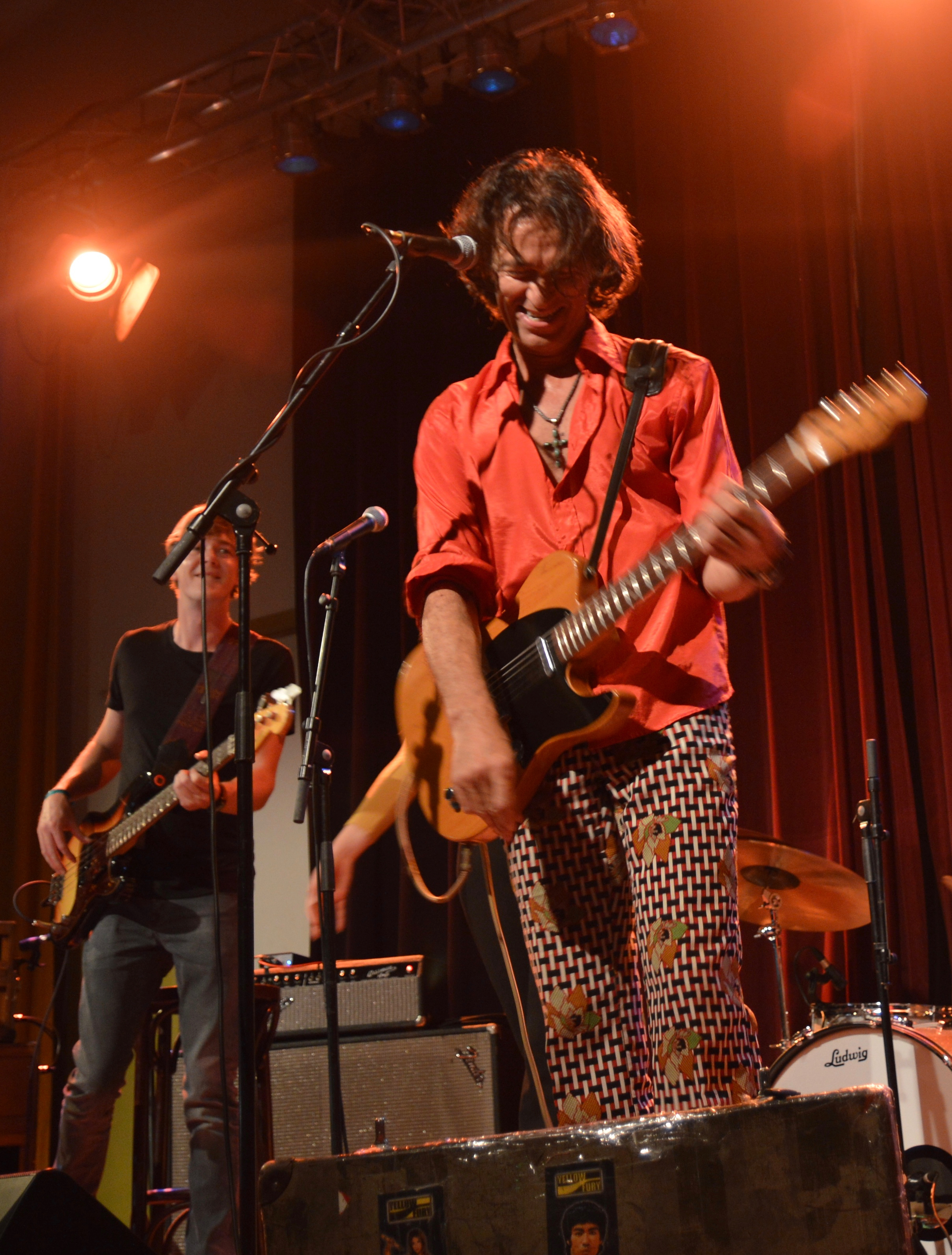 Erwin van Ligten, guitarist, singer, composet and bandleader. Performance with his own band in the Beauforthuis